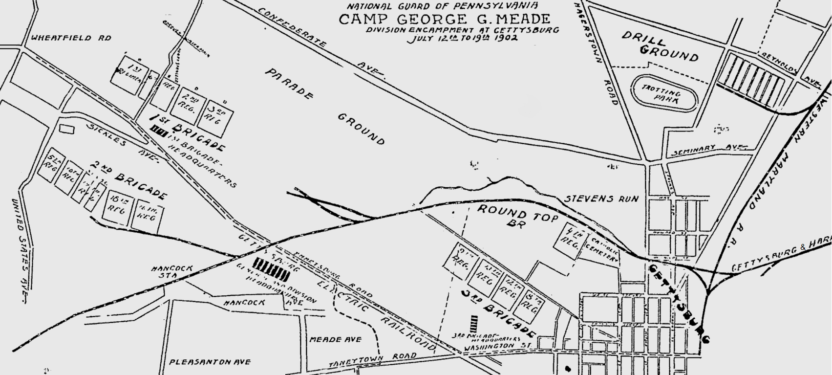 Camp George G. Meade SOURCE